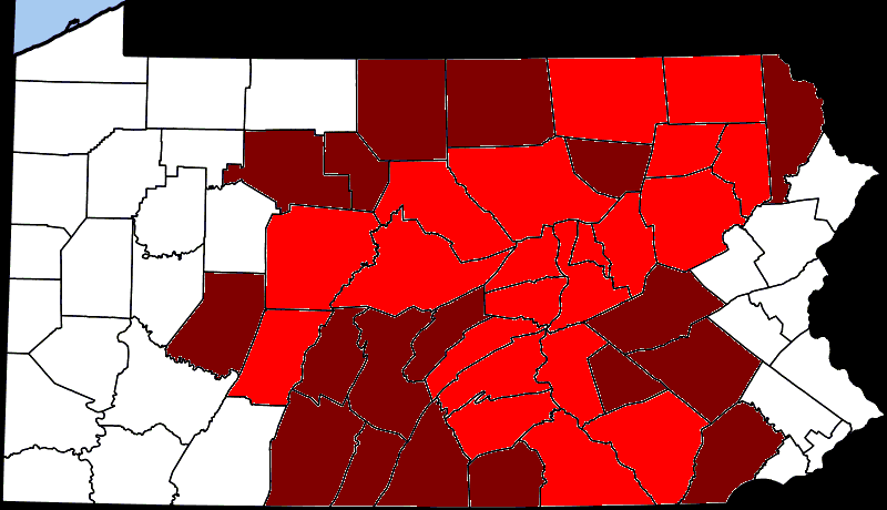 altered version of (Public domain map courtesy of The General Libraries, The University of Texas at Austin, modified to show counties relevant to article. Released under GFDL. See Wikipedia:U.S. county maps.)